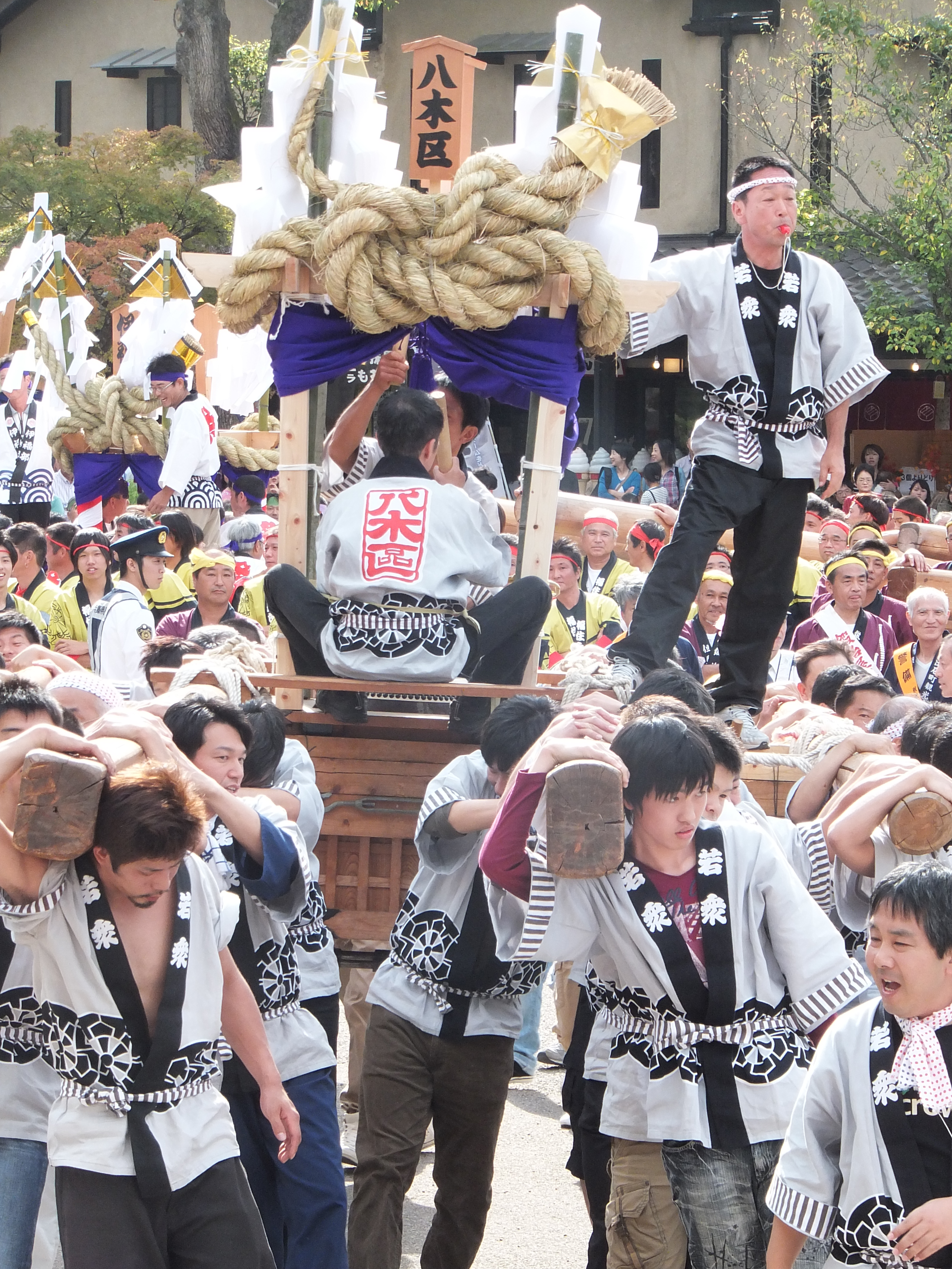 Taken at the Kenka Danjiri (Fighting Floats Festival) in Izushi Town, Hyogo Prefecture, Japan.